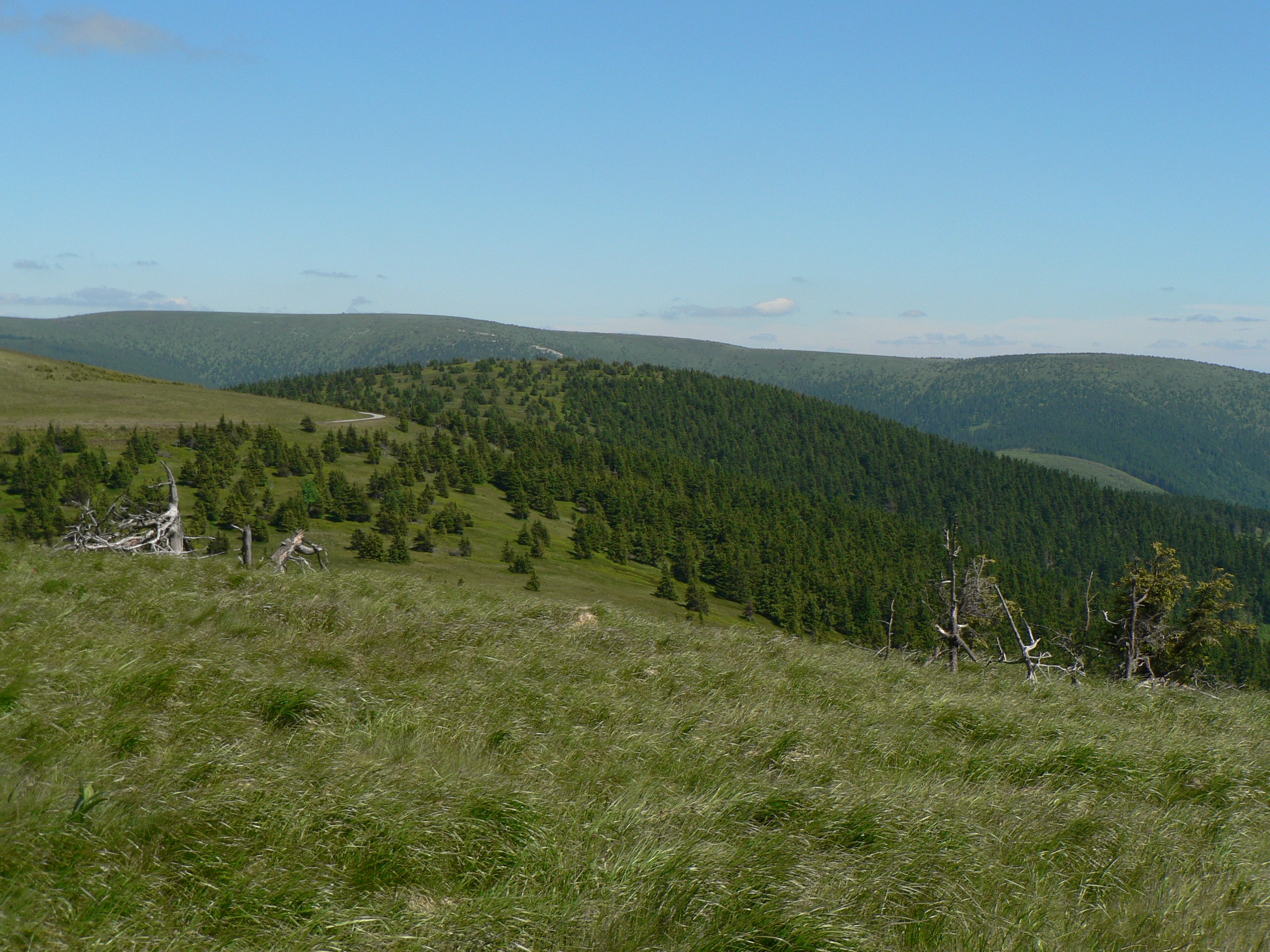 Vresnik mountain, Hruby Jesenik Mts, Czech republic.